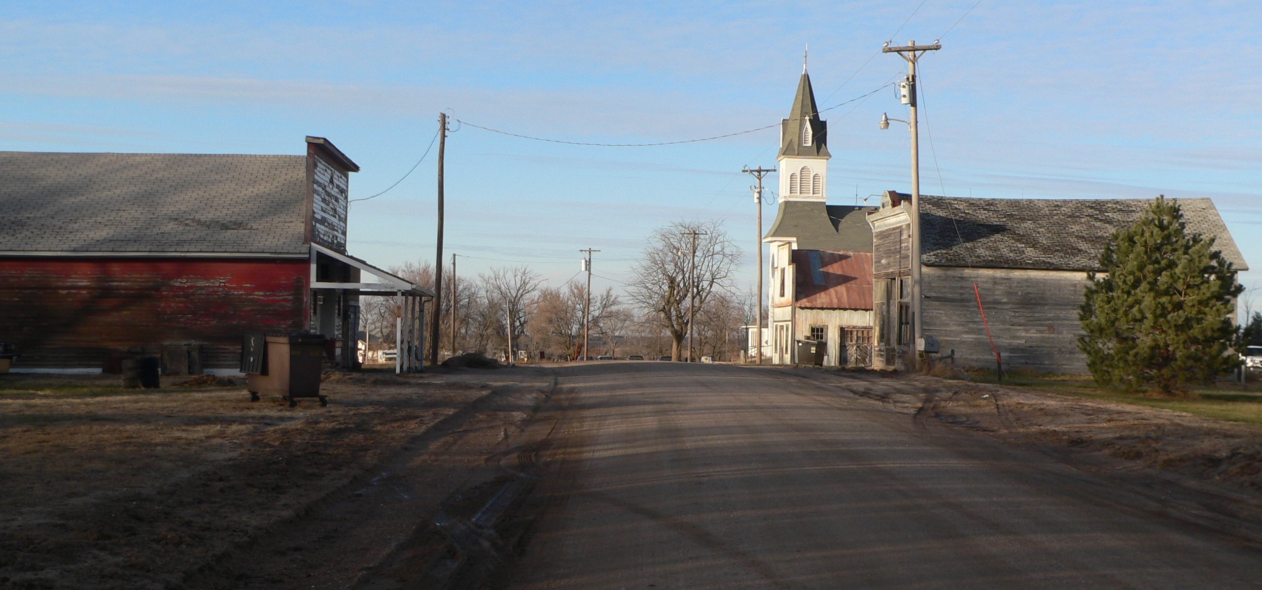 Downtown Loma, Nebraska. At left is the Loma Tavern, apparently the only operating business in Loma; in the right background is St. Luke's Czech Catholic Shrine.